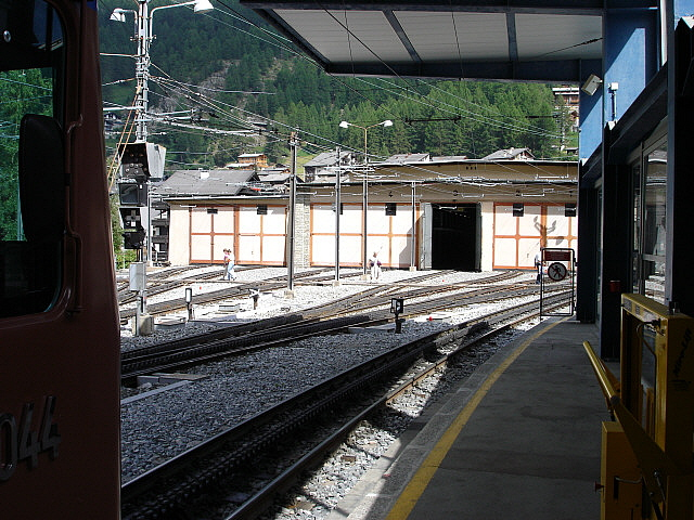 Gornergratbahn GGB / Zermatt